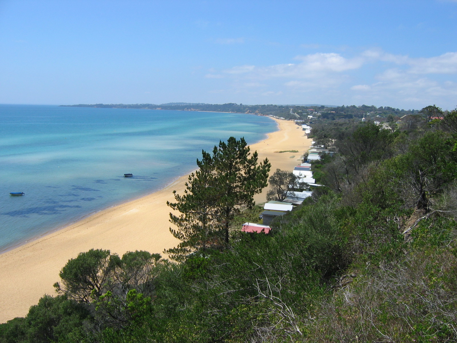 Mount Martha Beach looking north-east from near Victoria Crescent, Mount Martha, Victoria.